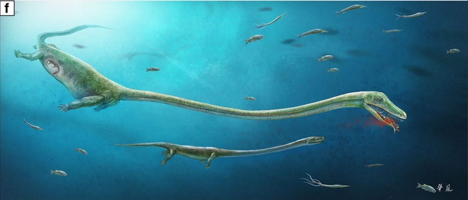 Pregnant Dinocephalosaurus